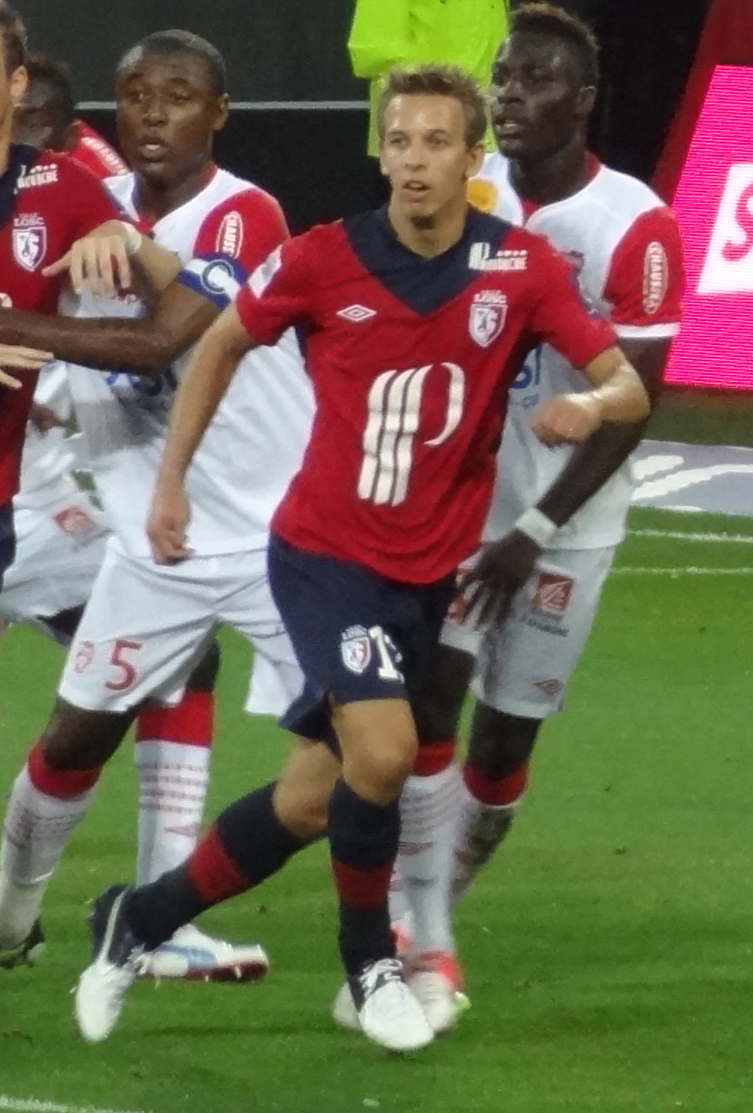 Pedretti (Lille LOSC)